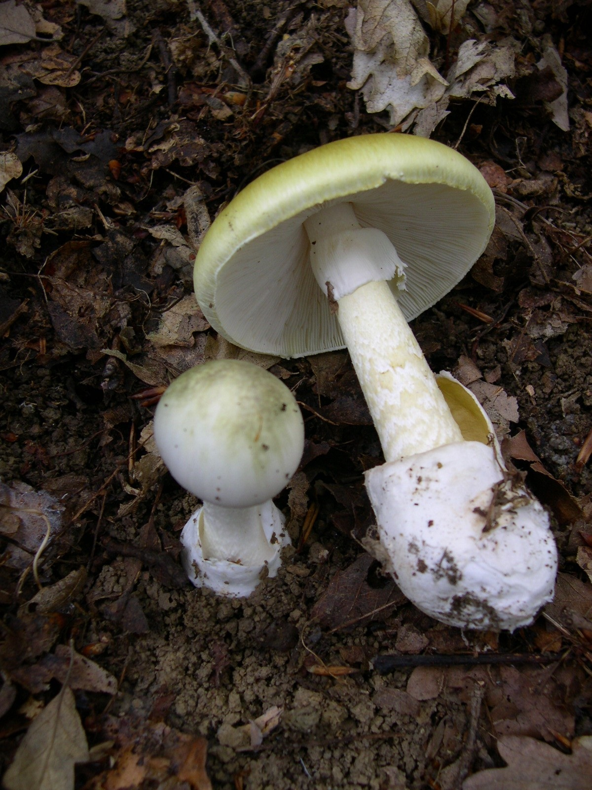 Amanita phalloides. Piacenza's mountains